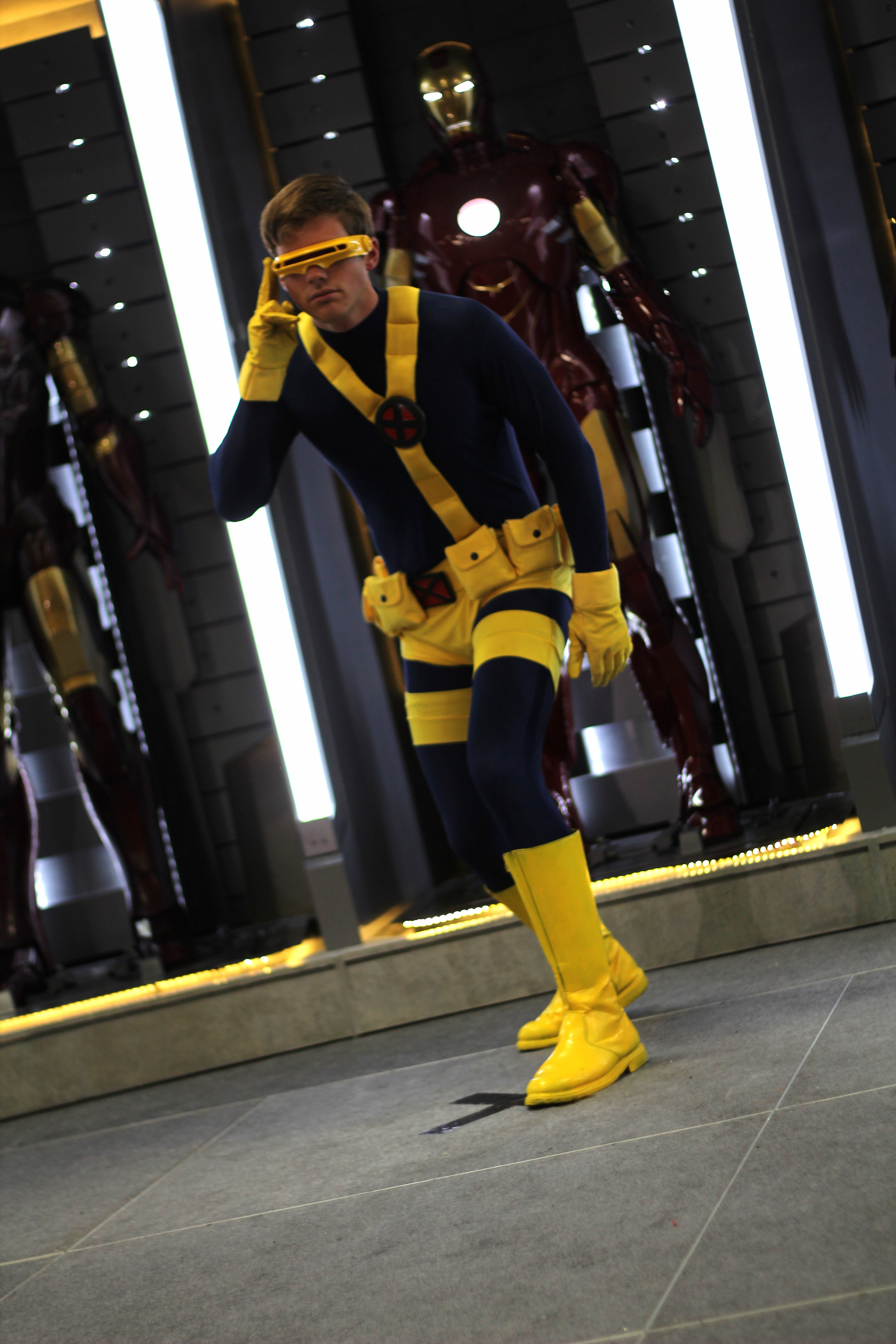 Cyclops Cosplay at San Diego Comic-Con (SDCC 2012).